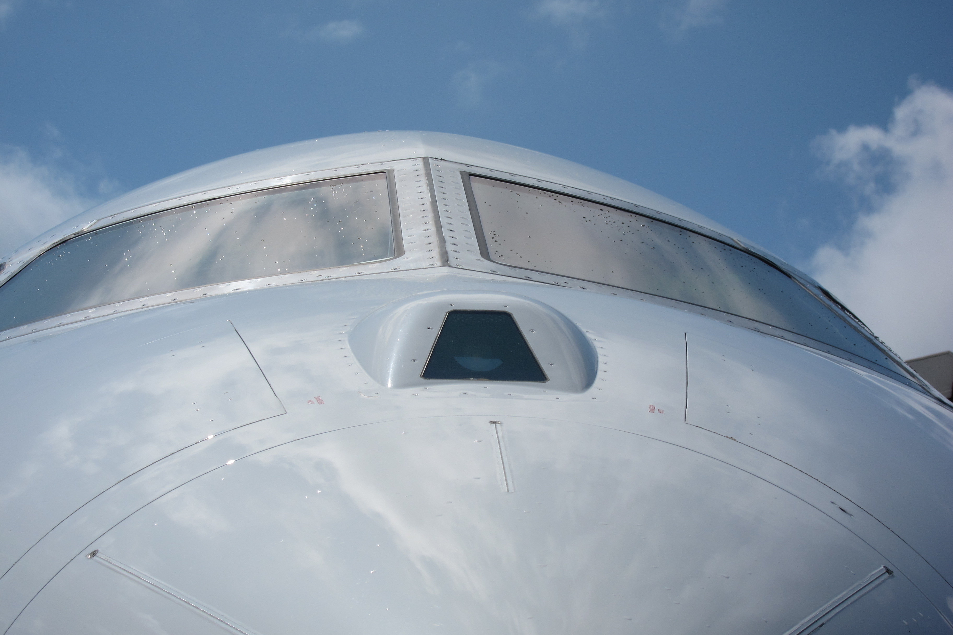 The camera of the enhanced vision system seen on the nose of a Bombardier Global 6000 on display at the Paris Air Show 2013